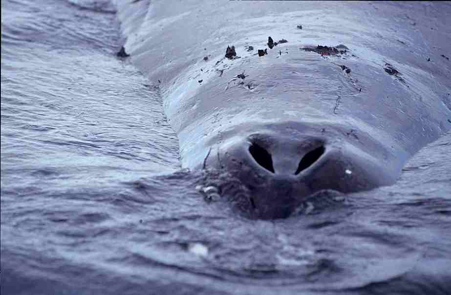 Breathing holes of bowhead whale (Balaena mysticetus), Foxe Basin (Nunavut, Canada)